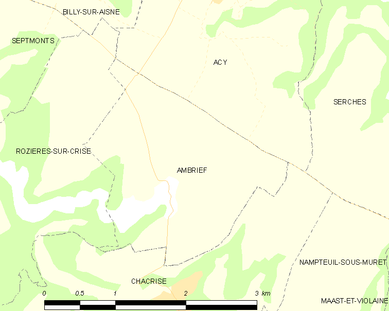 Map of French commune: Ambrief Map commune FR insee code 02012.png